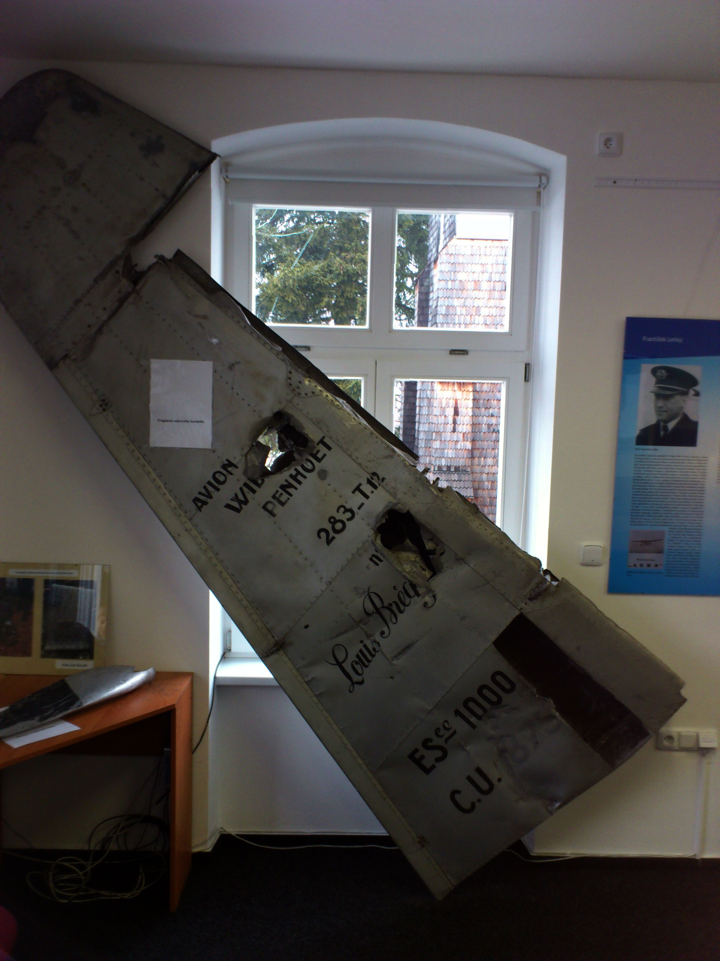 Rudder of Air France Wibault-Penhoët 283.T12 F-AMYD which crashed on 24 December 1937 near Zhůří. Fragment was displayed on an exhibition at Kvilda town hall. Part of propeller is also visible on the left.